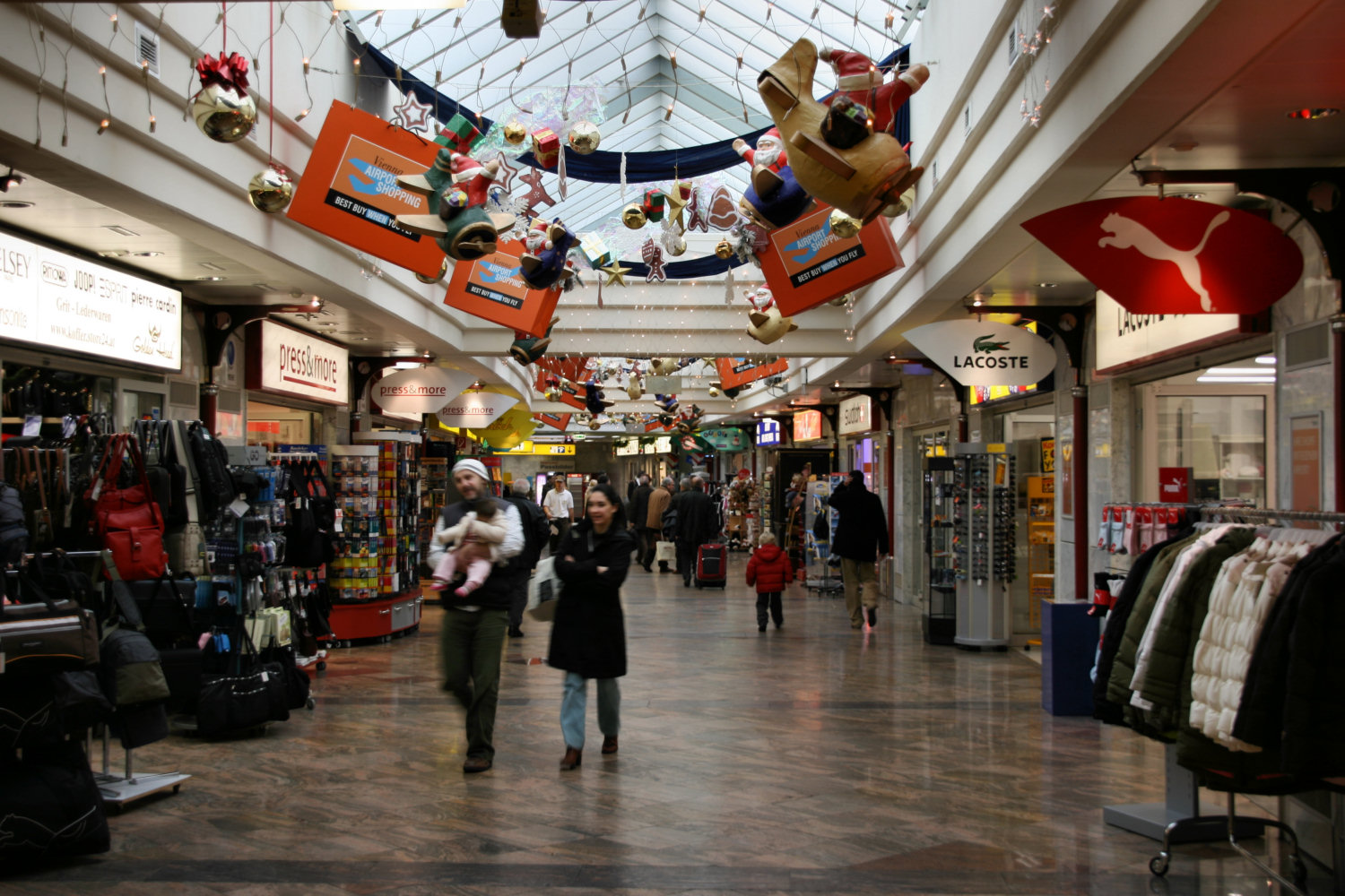 Schwechat airport shopping area. Vienna, Austria.